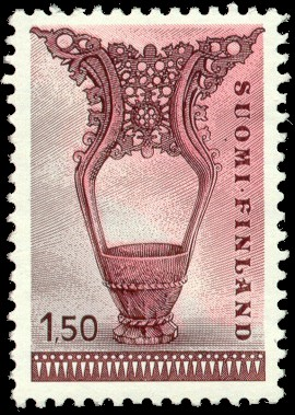 Postage stamp depicting a traditional Finnish kinkerikousa drinking vessel